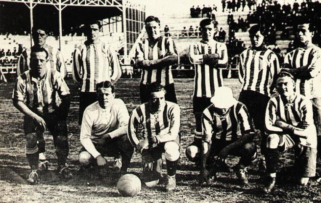 The Argentina national football team at the 1916 South American Championship (currently Copa América) posing before the match vs. Chile. Back: Armando Reyes, Francisco Olazar, Juan Domingo Brown, Guidi, Gerónimo Badaracco, Pedro Martínez Front: Juan Perinetti, Carlos Wilson, Alberto Marcovecchio (wearing hat), Alberto Ohaco, Adolfo Heissinger. Argentina won by 6-1.